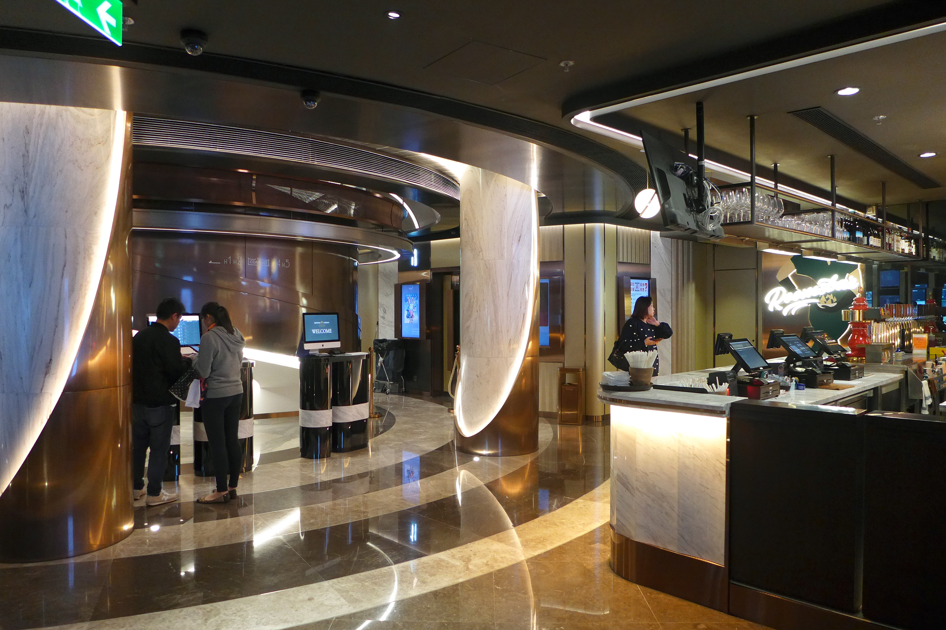 Emperor Cinemas in Entertainment Building